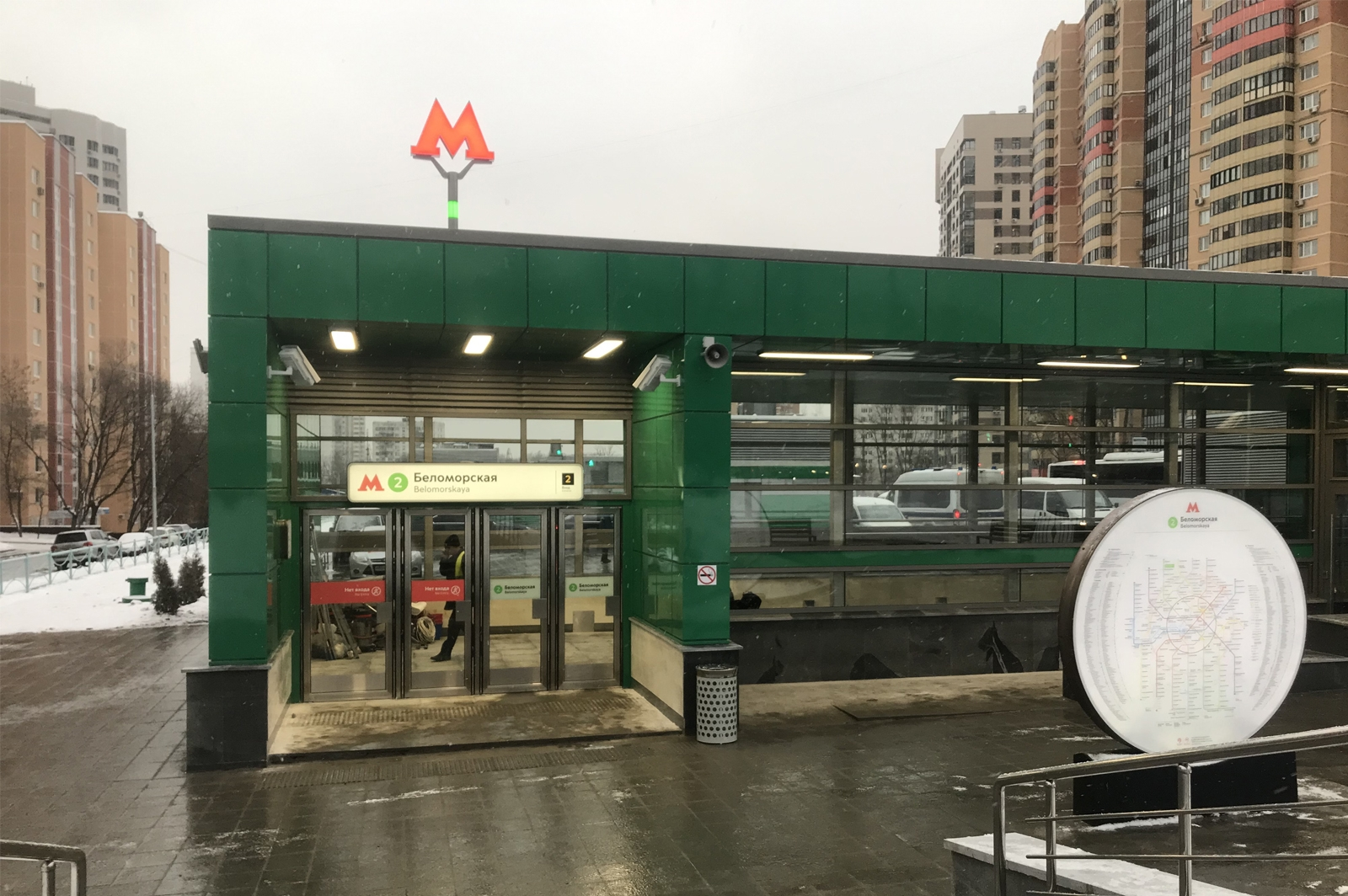 Belomorskaya station of the Moscow Metro